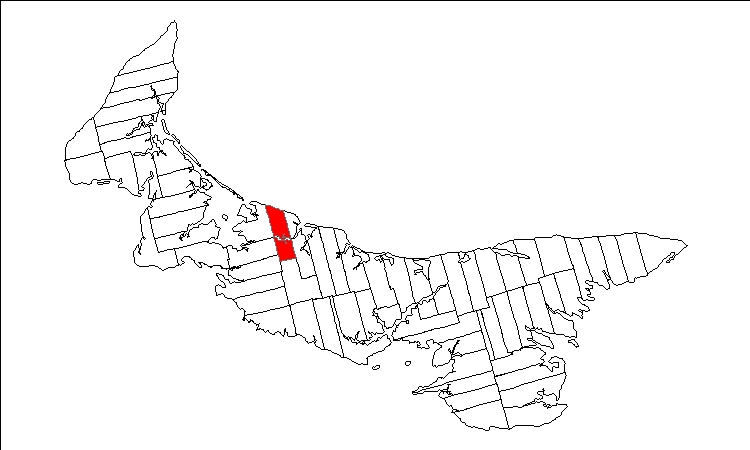 Public domain map of Prince Edward Island created by User:Plasma east with data courtesy of Geogratis, modified to show townships. Released under GFDL (self).